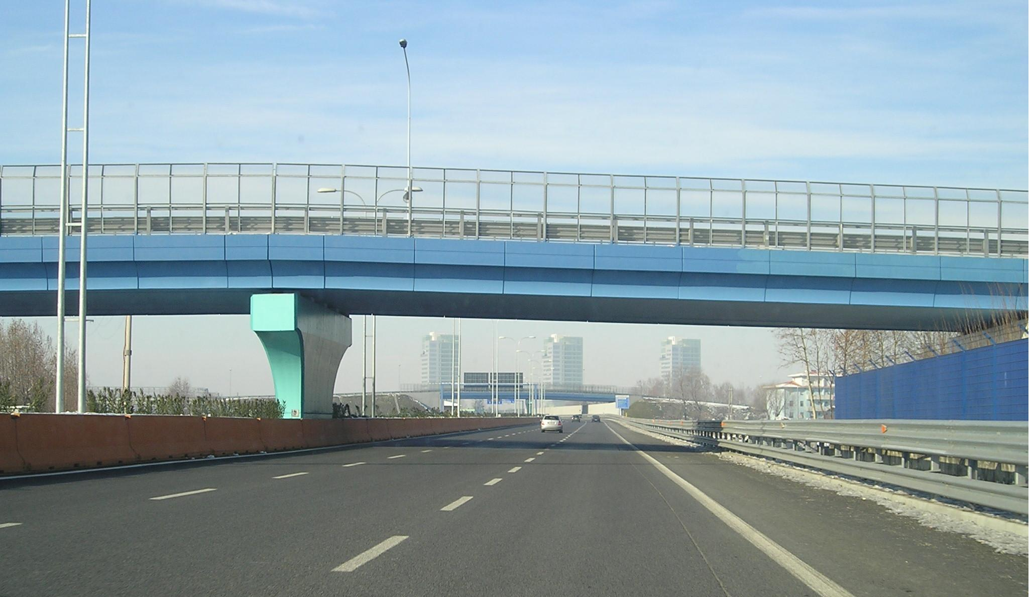 South Beltway of Brescia, where it has three lanes for each direction